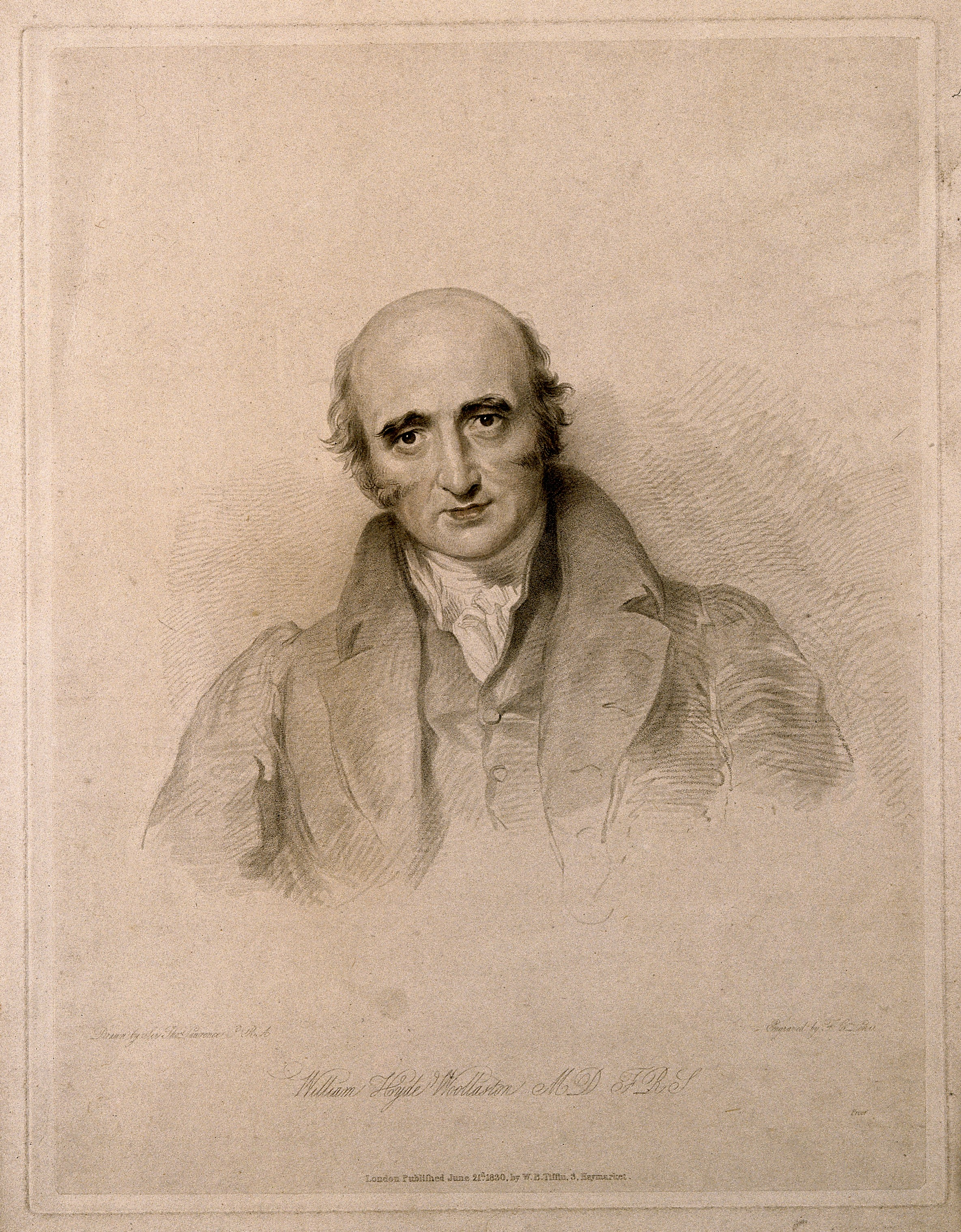 William Hyde Wollaston. Stipple engraving by F. C. Lewis, 1830, after Sir T. Lawrence. Iconographic Collections Keywords: portrait prints; William Hyde Wollaston; stipple prints; Thomas Lawrence; Frederick Christian Lewis